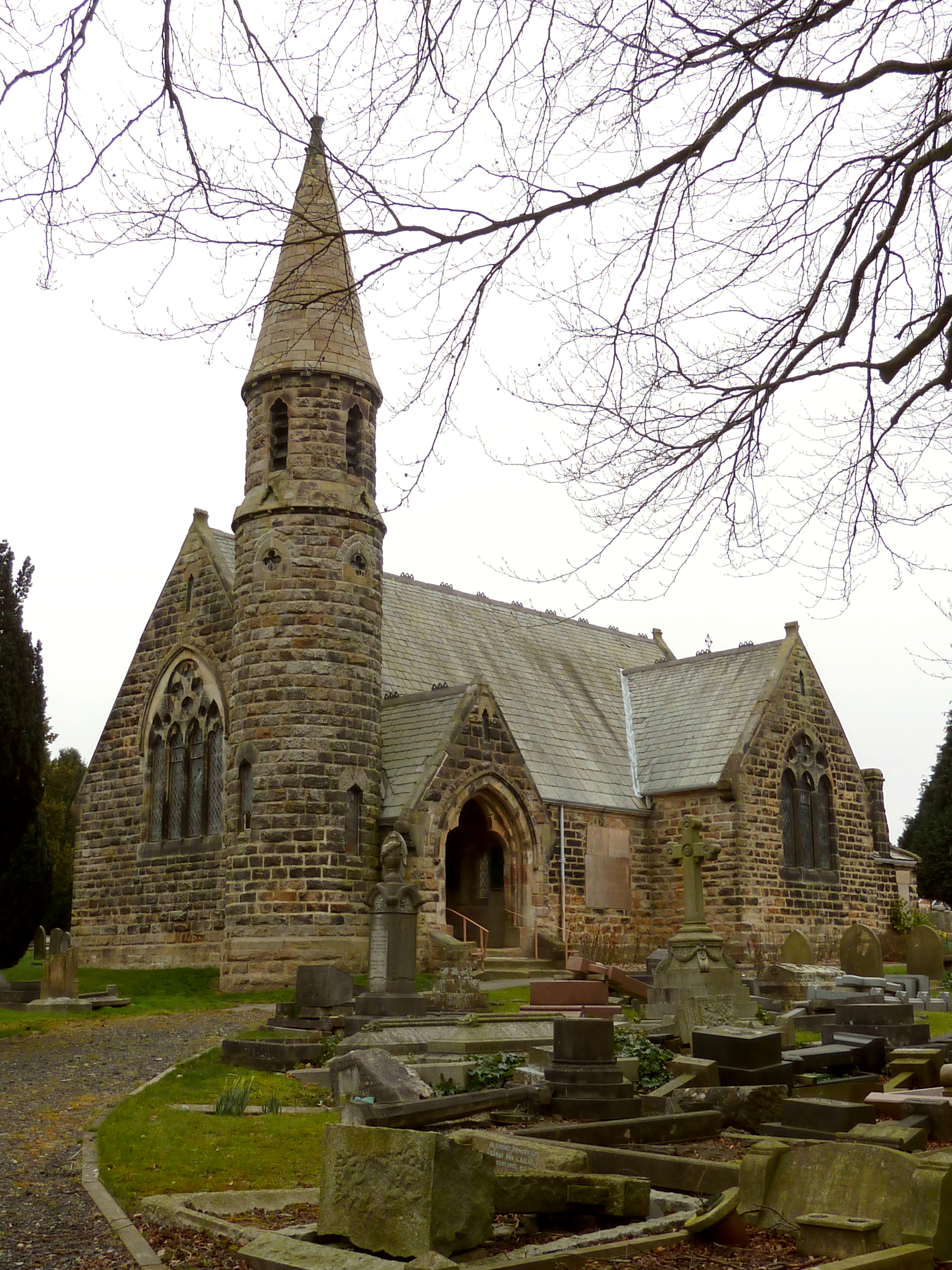 Church of All Saints, Otley Road, Harlow Hill, Harrogate, North Yorkshire, England. It is the cemetery chapel in Harlow Hill Cemetery, and was designed in 1870 by architects Isaac Thomas Shutt and Alfred Hill Thompson.